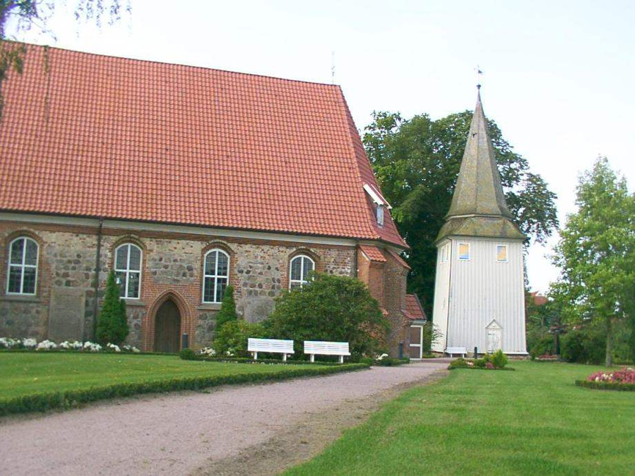 St. John’s Church in Hamburg-Neuengamme